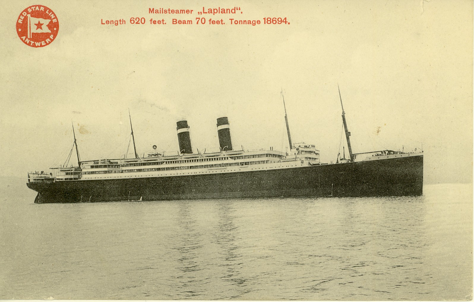 Local Accession Number: PC 137 Description: Lapland was a passenger steamship that sailed a route from the U.K. to New York. It served as a troop vessel in the First World War. Photographer: Unknown Source: Unknown Size: 3x5 Medium: Print, Black and White Date: 1912